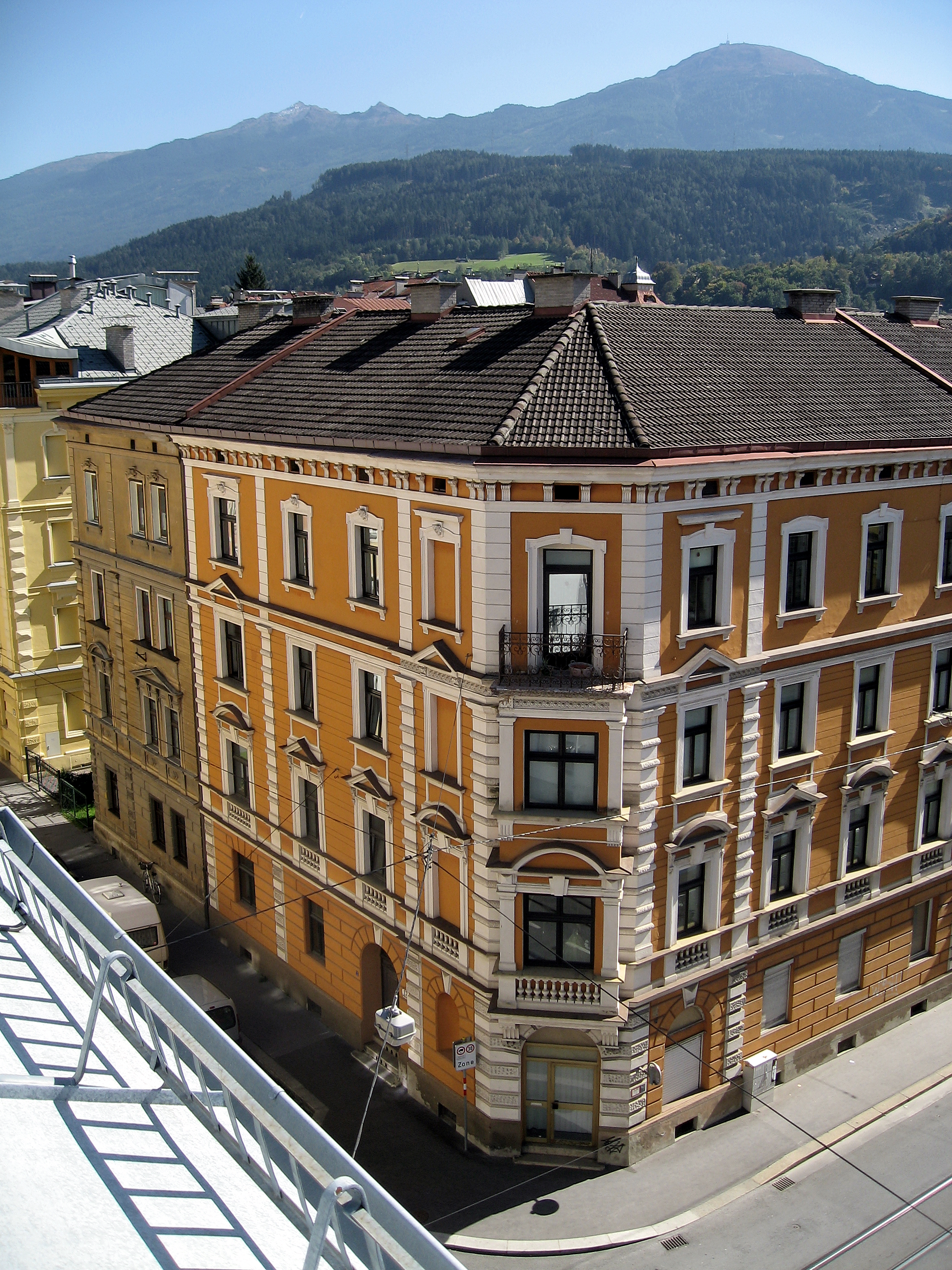 Andreas-Hofer Straße in Wilten, the oldest part of the town. Innsbruck, Austria. Background: Glungezer (Sonnenspitze), Viggarspitze, Patscherkofel, in front Paschberg